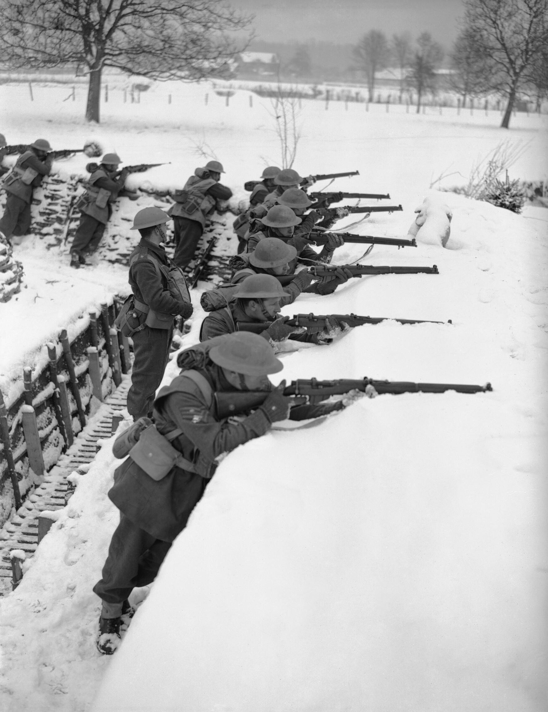 The British Army in France 1940 Men of the 2nd Battalion Royal Warwickshire Regiment manning a trench in the snow at Rumegies, 22 January 1940.